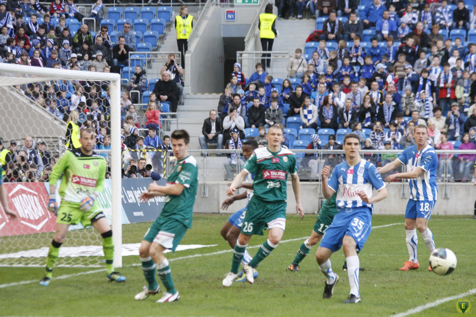 Lech v Śląsk Wrocław on 25th march 2012